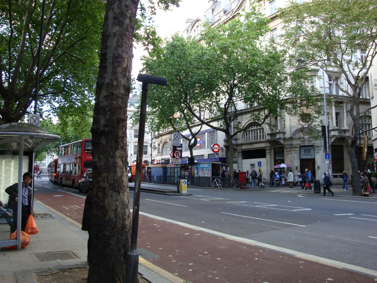 A block away from corner of Kingsway and Holborn streets in London, UK